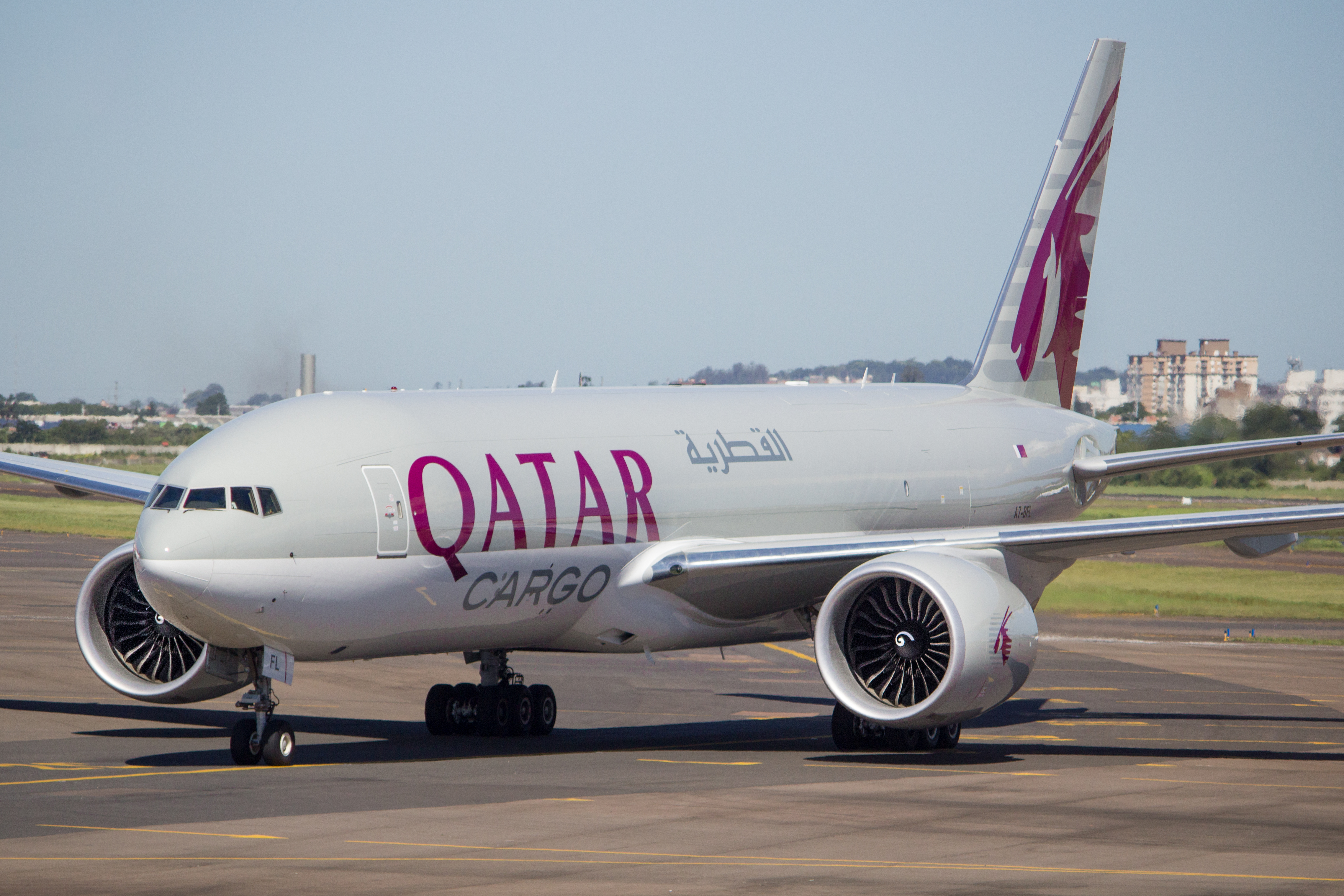 777-F QATAR CARGO SBPA